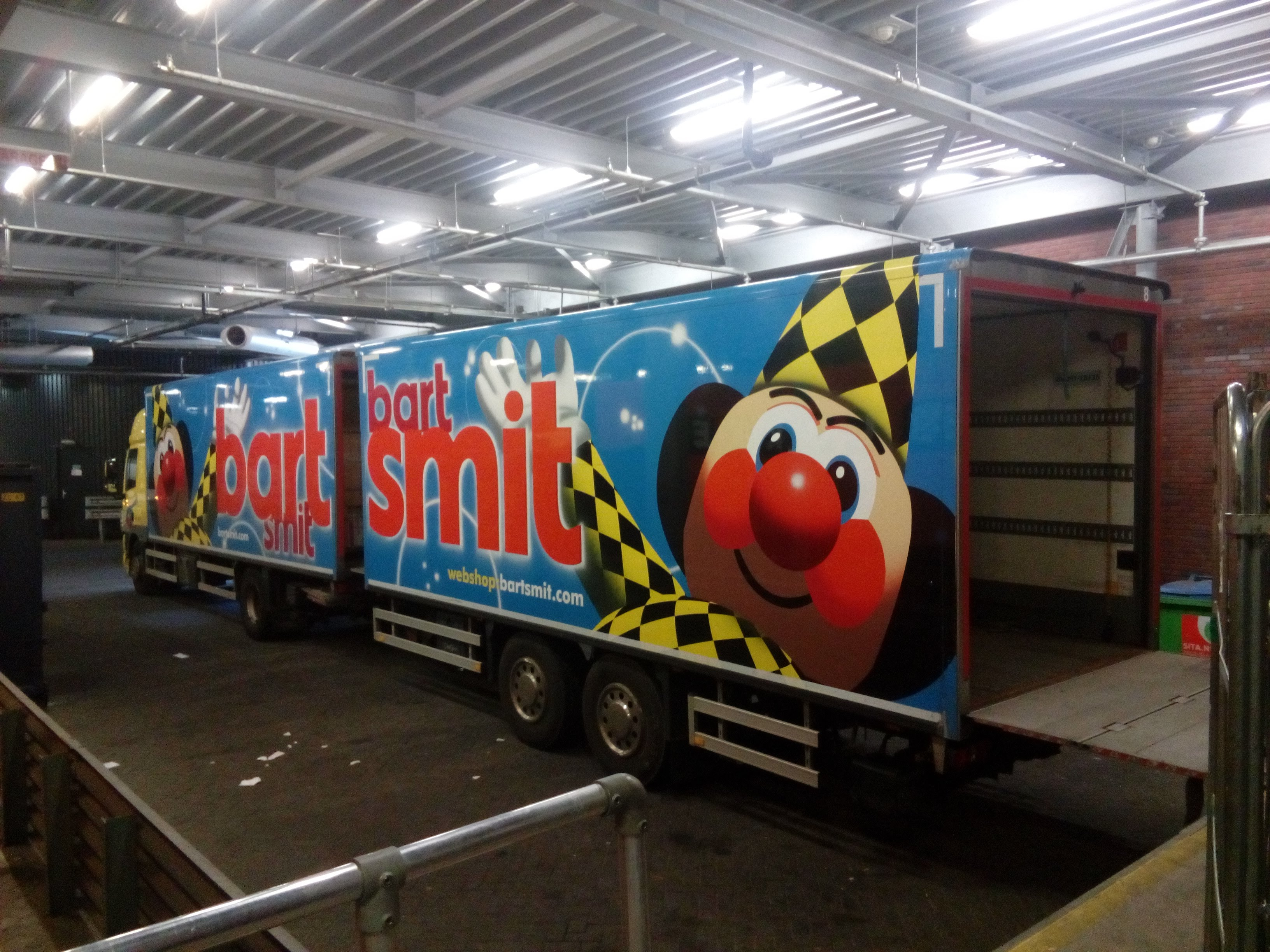 Truck of Dutch toystore concept Bart Smit